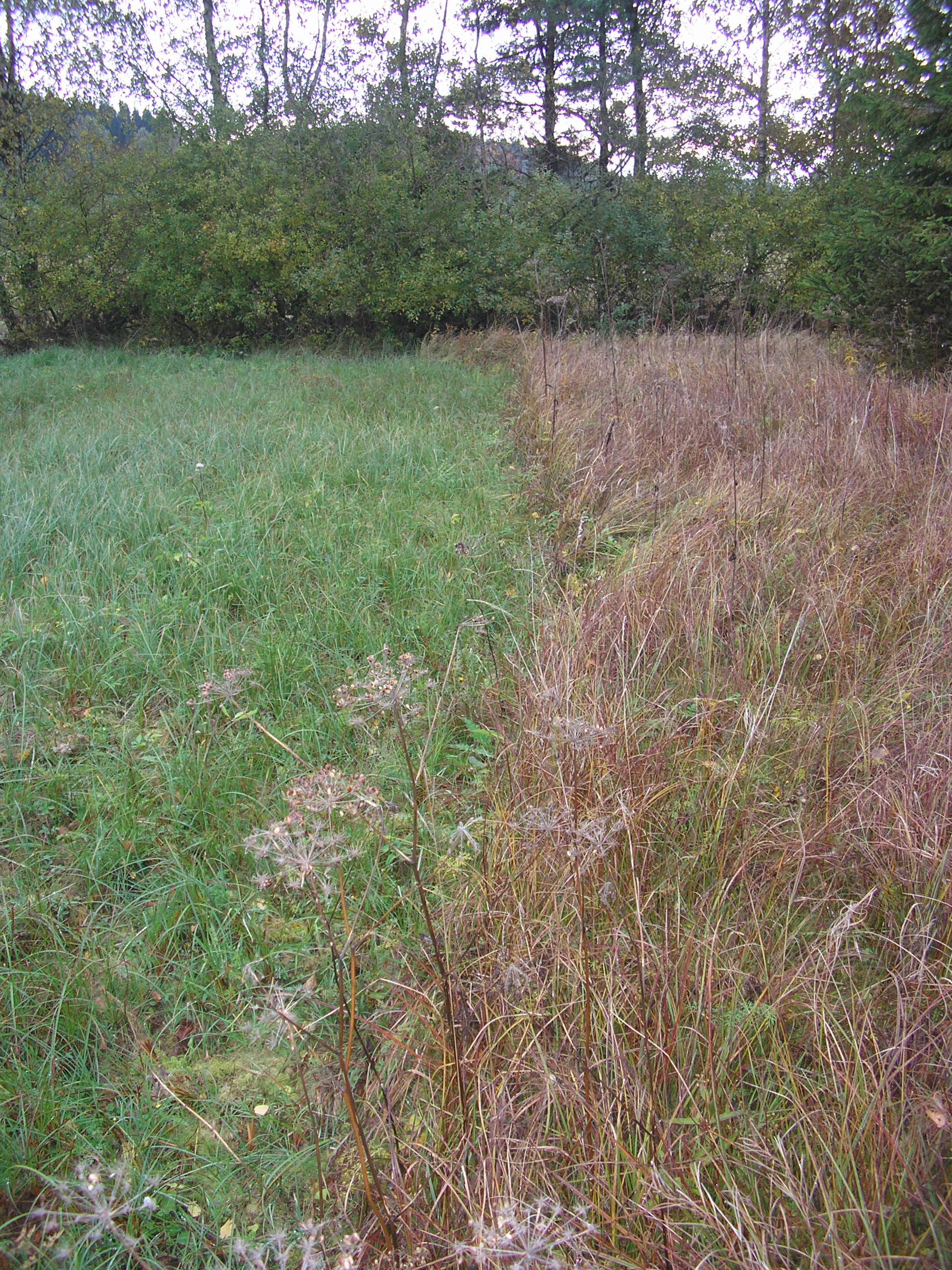 The meeting of two different management interventions